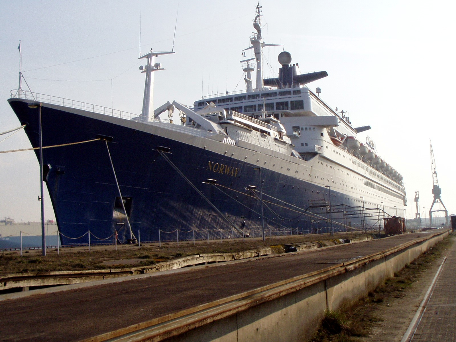 Ship Norway anchoring in Bremerhaven, Germany